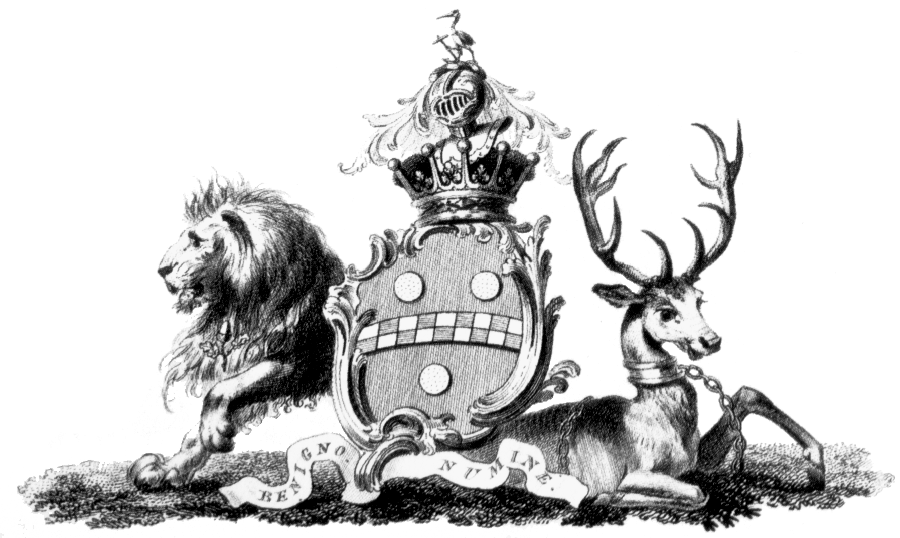 An illustration of the coat of arms of the Pitt family, members of which included William Pitt, 1st Earl of Chatham, and his son William Pitt the Younger.